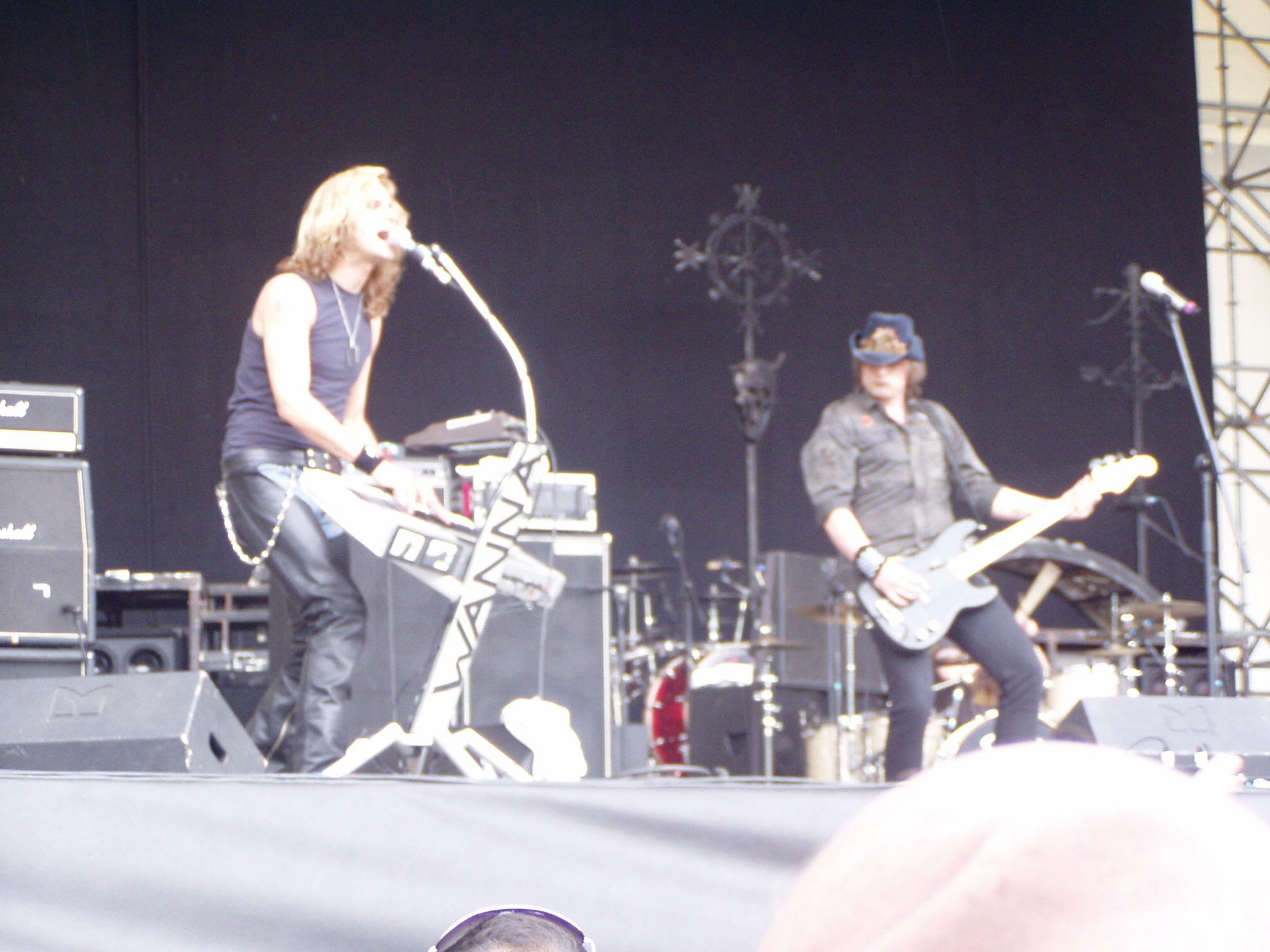 I White Lion al Gods of Metal 2007